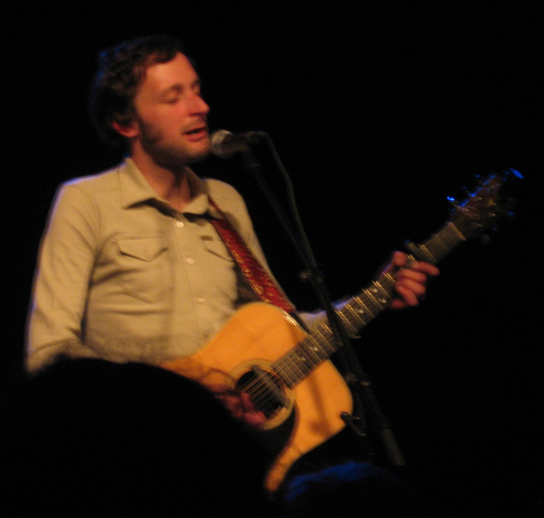 Scottish singer Alasdair Roberts at a concert in Berlin.